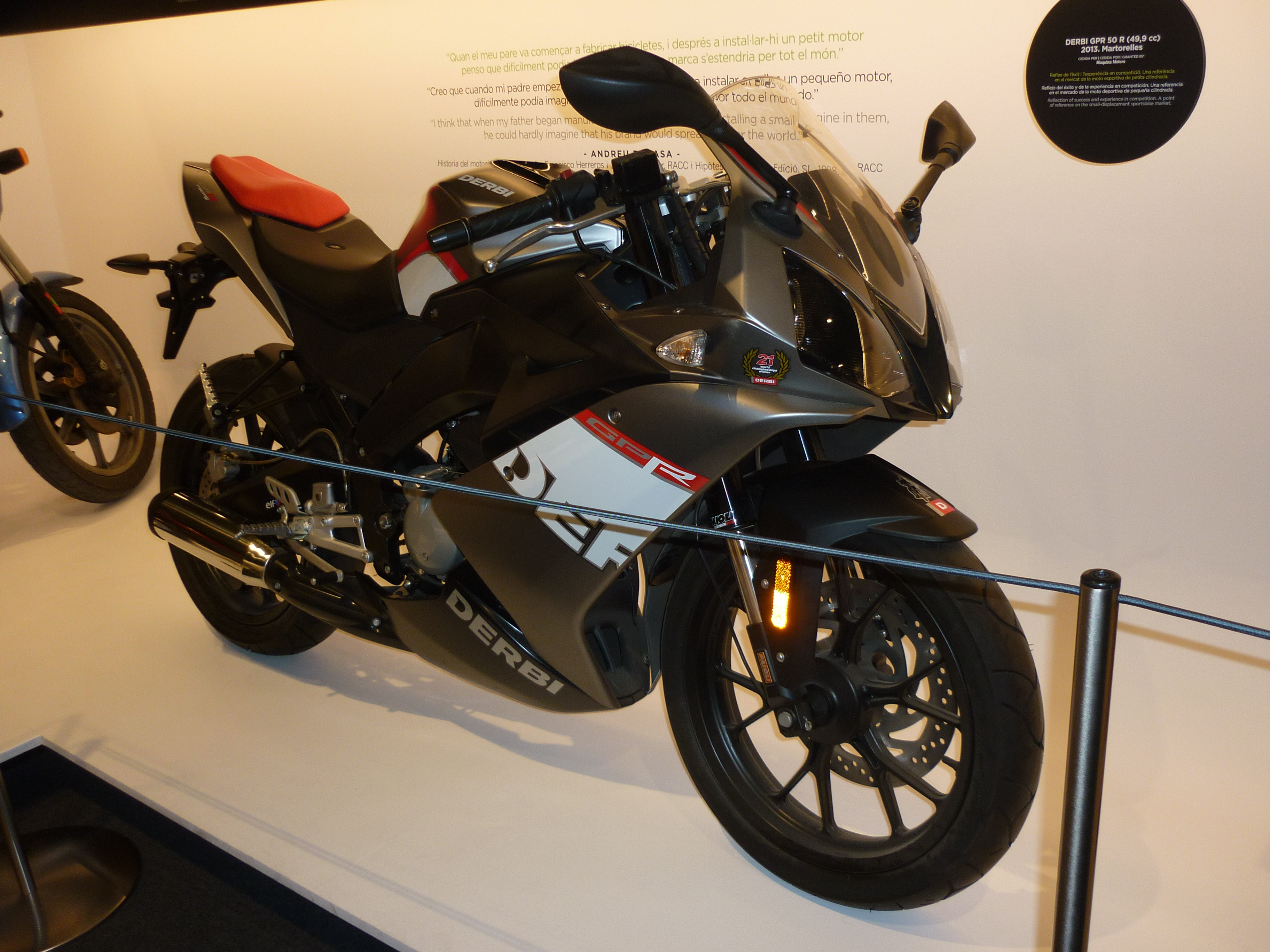 Derbi GPR 50 R (49,9 cc), 2013